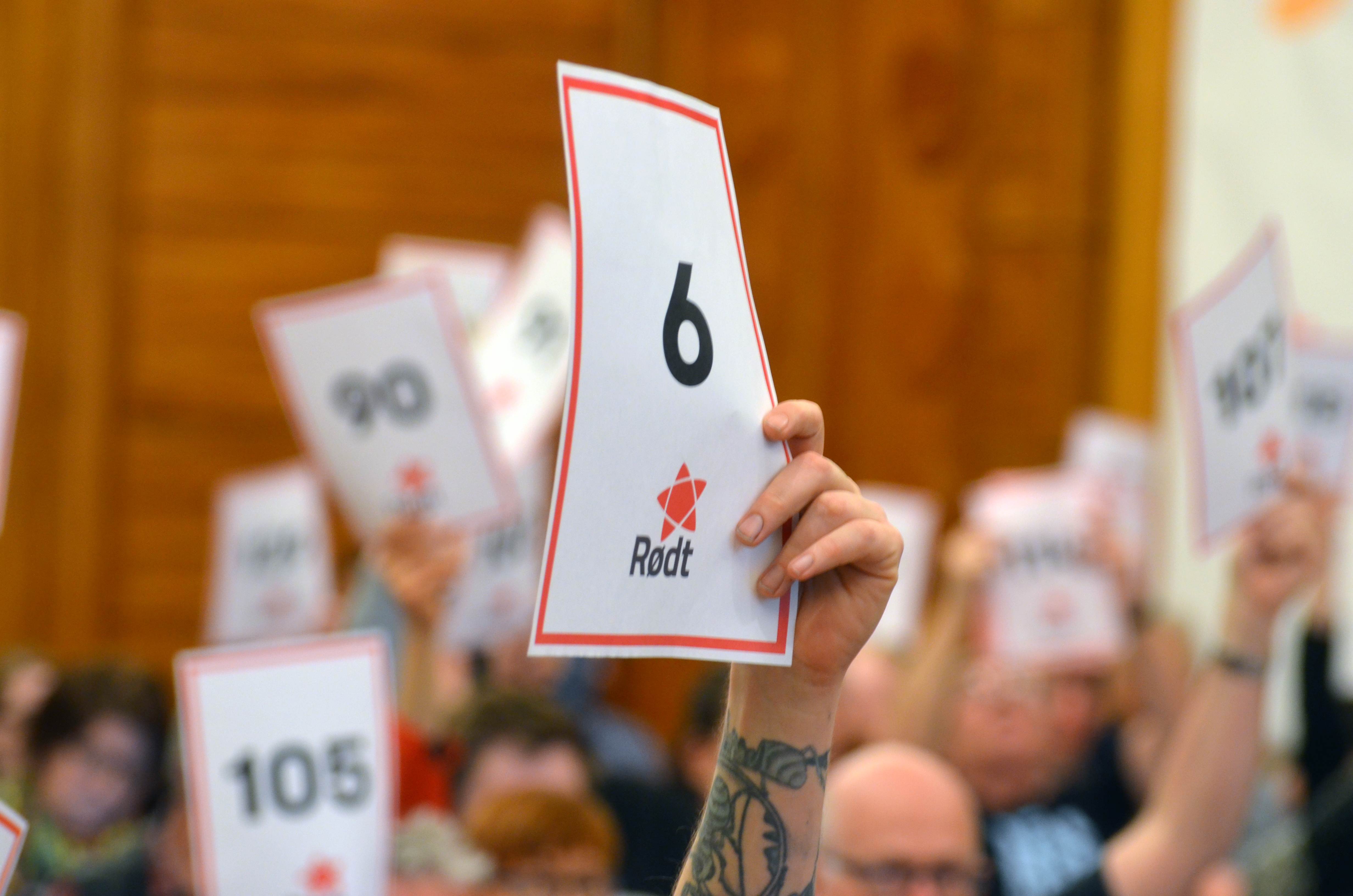 Voting during the national congress of the Norwegian Red Party in 2017.